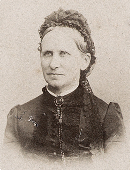 Ernestine Sutermeister Ottos Sutermeister wife